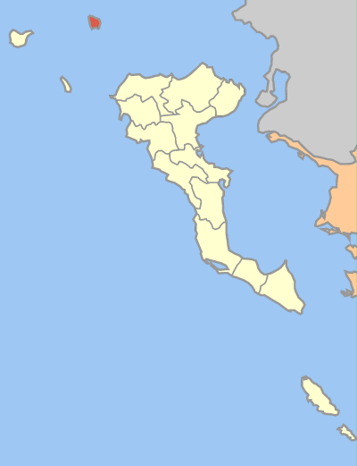 Locator map of Erikoussa community (Κοινότητα Ερεικούσσας) in Corfu prefecture (Νομός Κέρκυρας) in Greece.